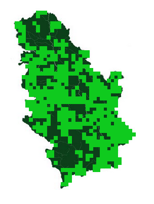 Iphiclides podalirius - distribution map in Serbia